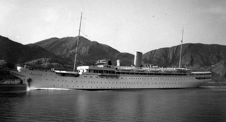 Norwegian cruiseship MY Stella Polaris Norsk (bokmål): Passasjerskipet MY «Stella Polaris»